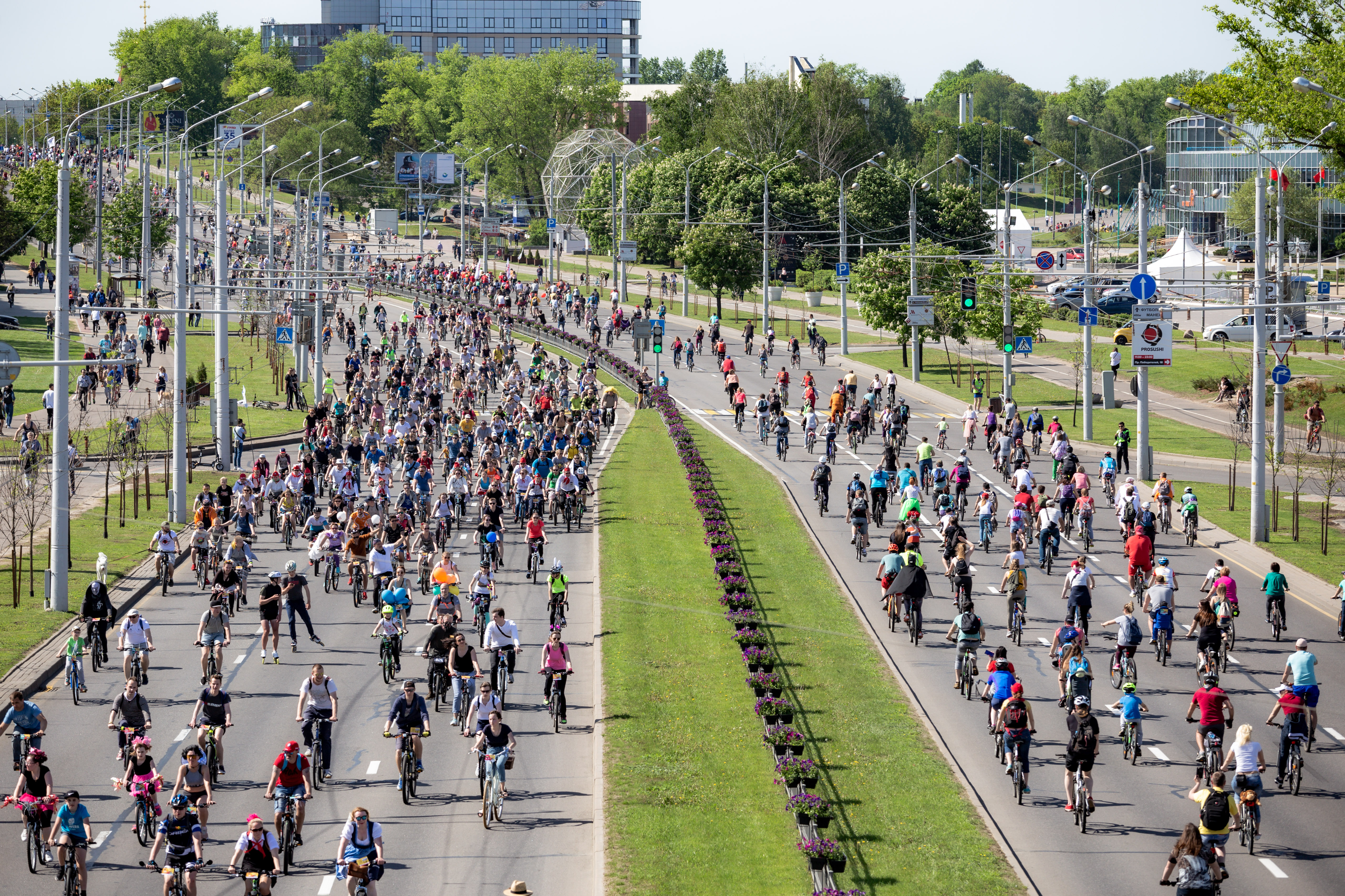 VivaRovar2019